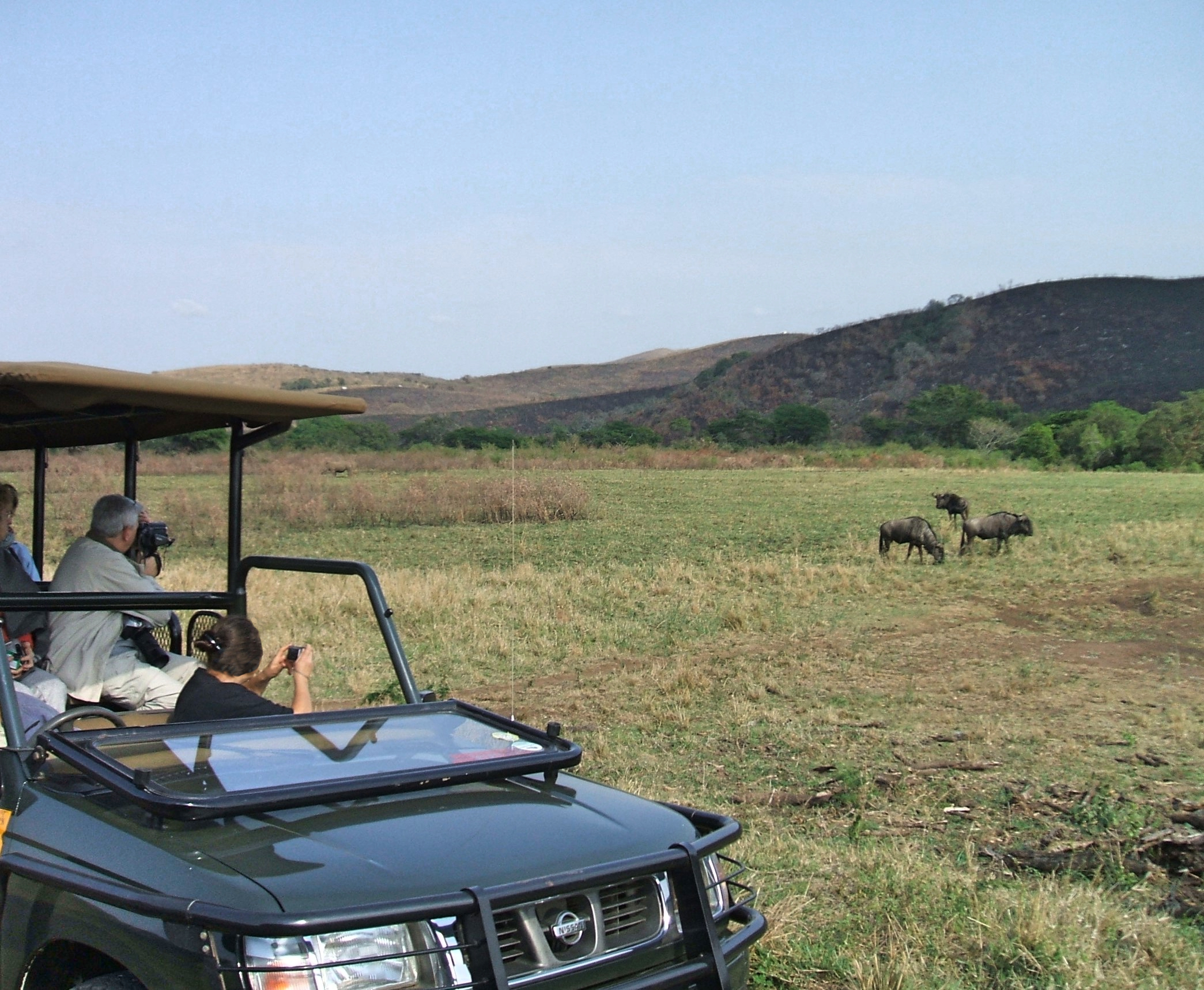 Syncerus caffer in Kapama_Game_Reserve in province de Limpopo, Afrique du Sud This is an image with the theme "Africa on the Move or Transport" from: South Africa